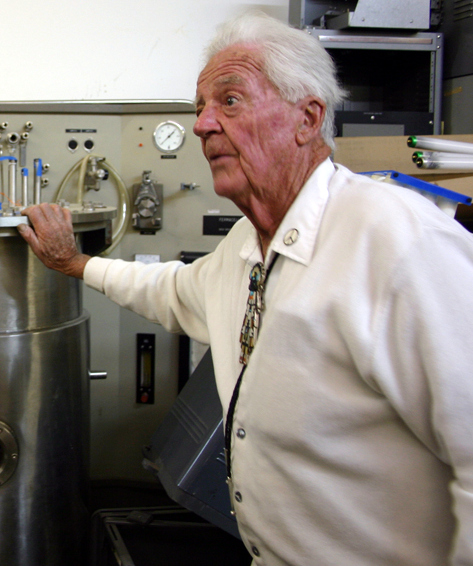 Image of Ed Grothus inside The Black Hole (Los Alamos, NM).